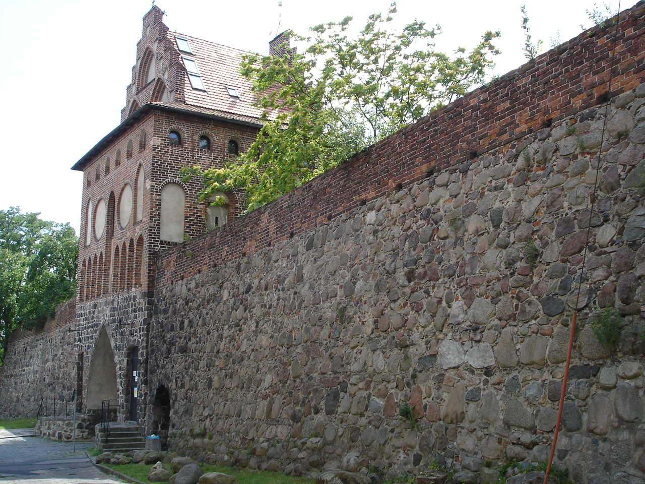 Defensive wall in Stargard Szczeciński, Poland.